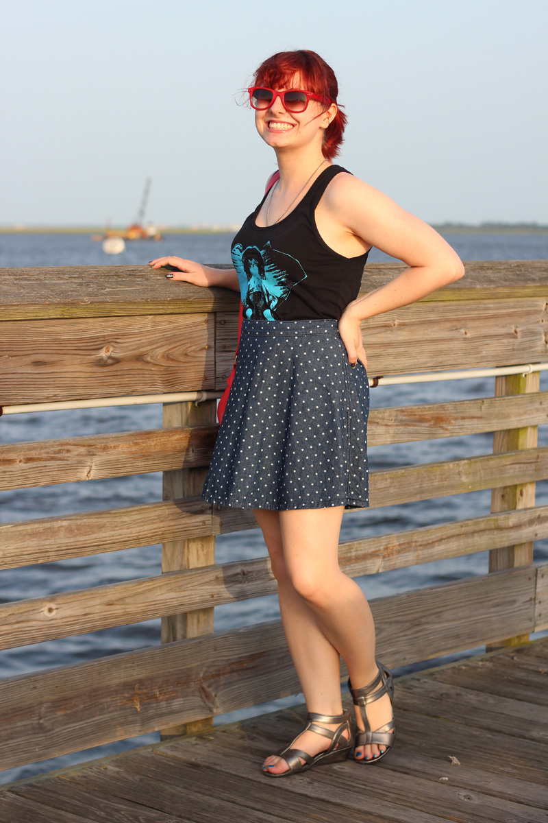 Dotted Chambray Skater Skirt, Black Tank Top, and Silver Sandals Model